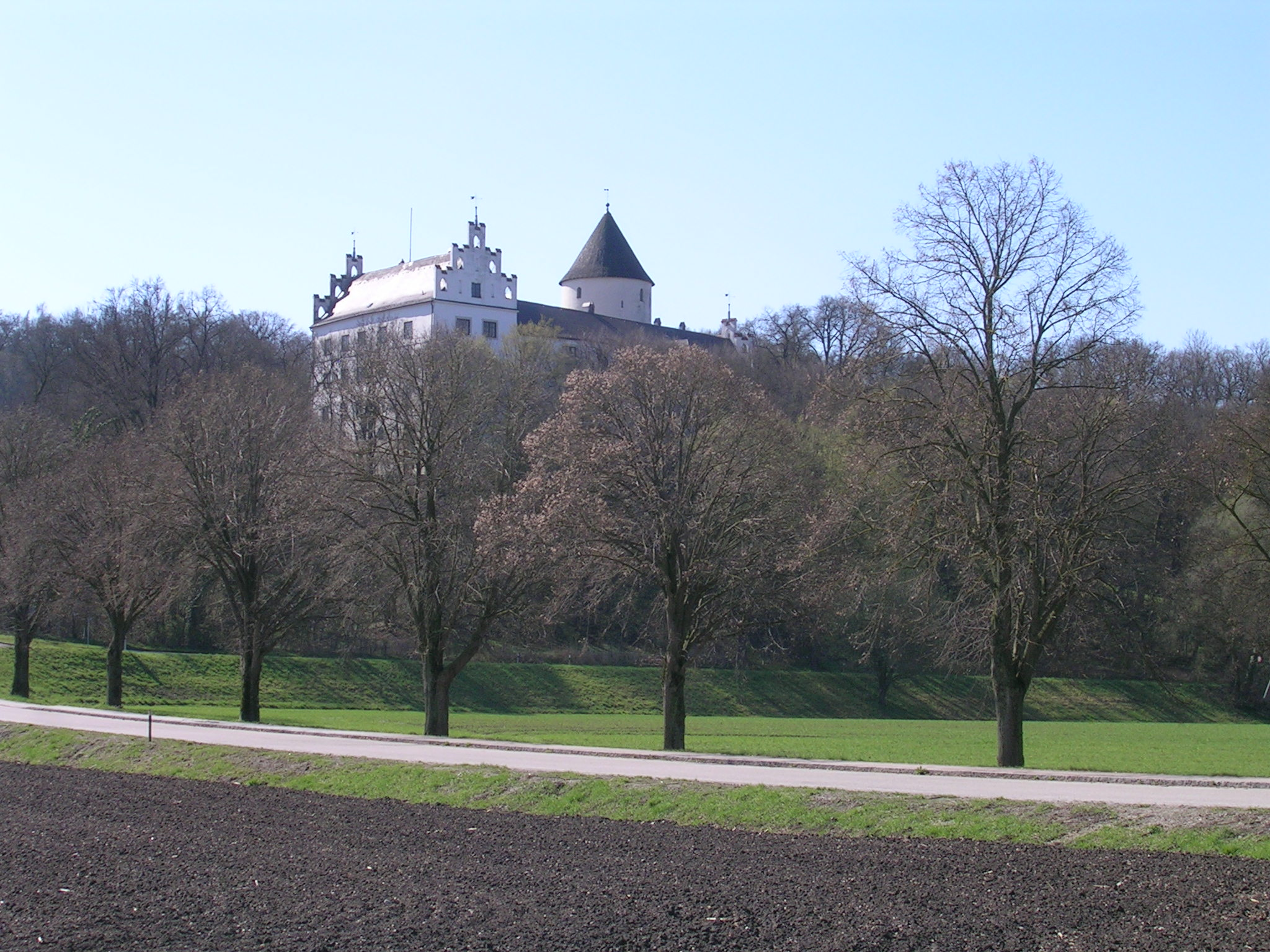 Schloss Kronwinkl (Alten-Preysing)